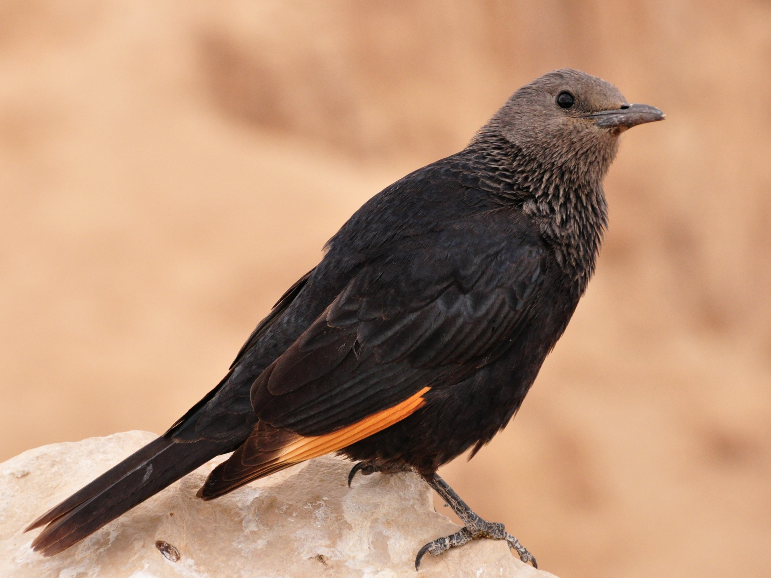 A female Tristram's Starling (also known as Tristram's Grackle) in Israel.